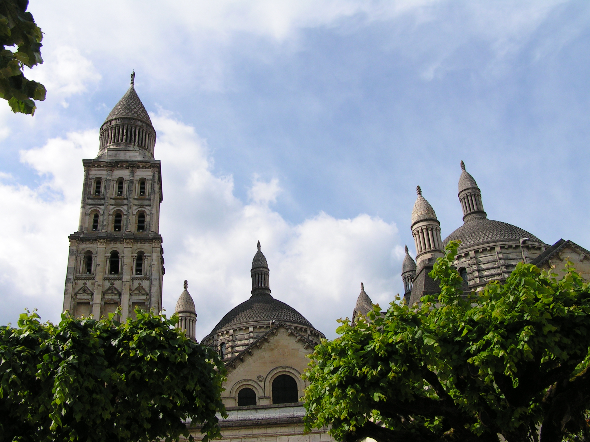 Cathédrale Saint-Front